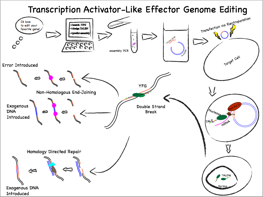 Workflow of TALEN genome editing